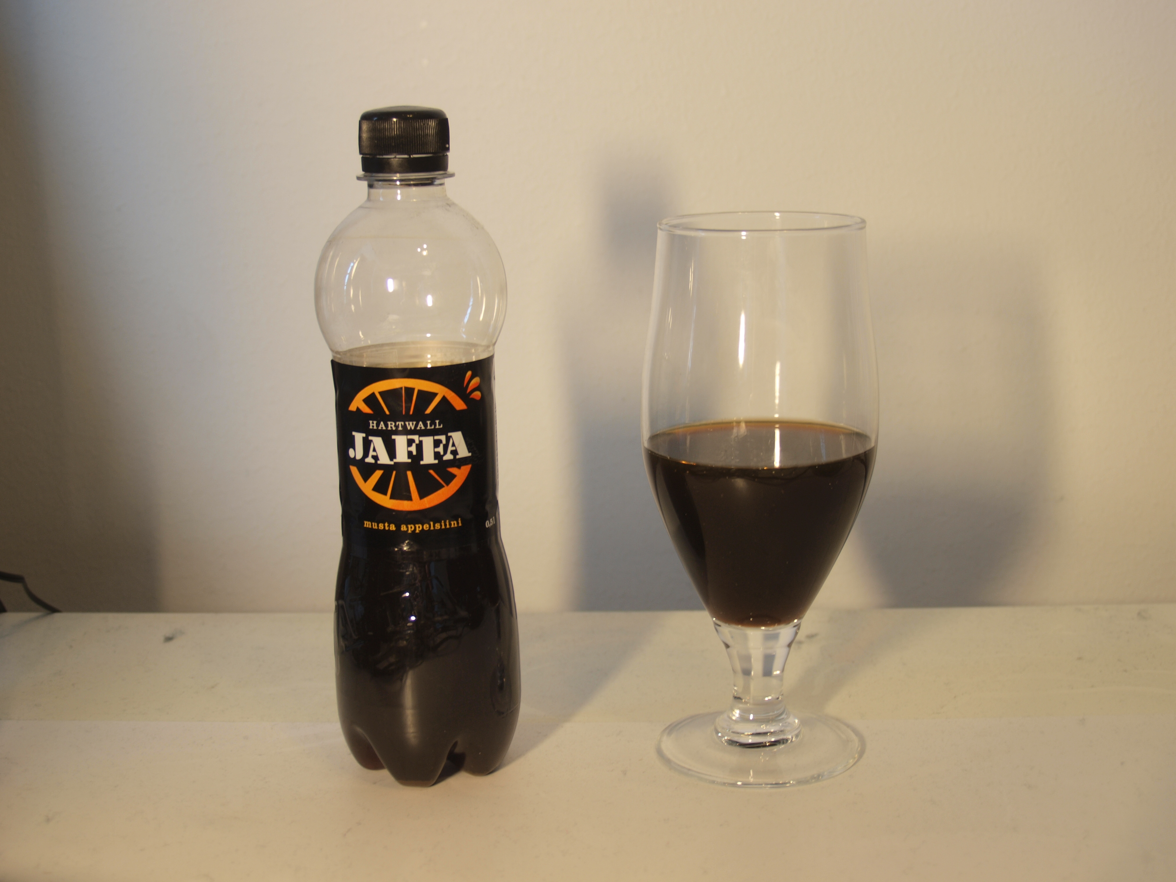 A bottle of "Jaffa Musta Appelsiini", an orange-flavoured, black-coloured, soft drink from Finland, with some of the contents poured into a glass.